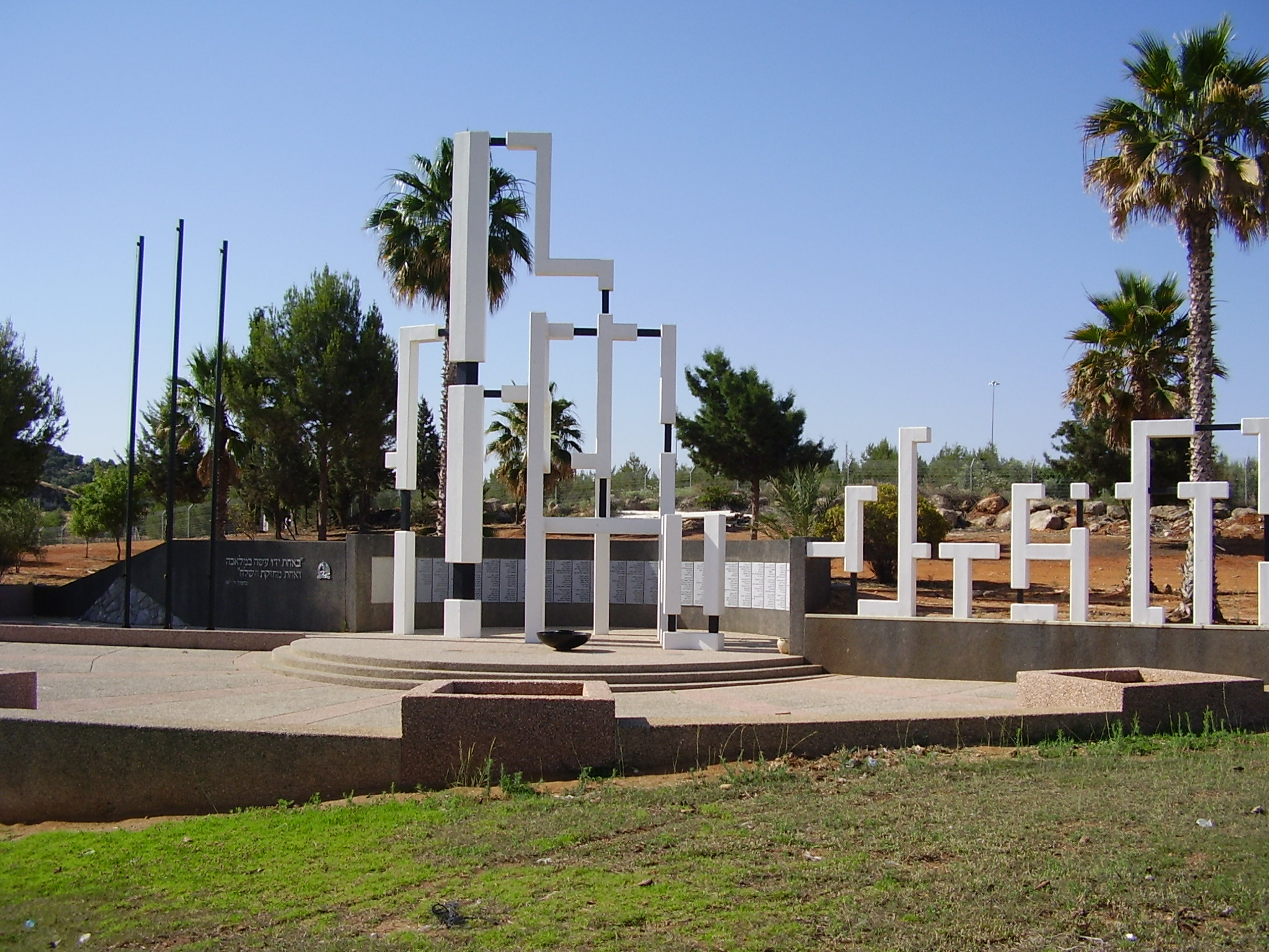 Logistic Corps' Memorial in Israel